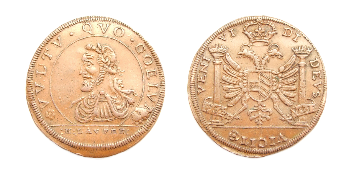 Nuremberg, jeton by Hans Laufer of Henri IV, King of France. Obverse: Bust of Henri IV to left; :H:LAVFER: in exergue; legend between two rosettes: VVLTV.QVO.GOELVM. Reverse: Crowned double headed imperial eagle between two pillars; legend: VENI.VIDI.DEVS.VICIT and rosette.